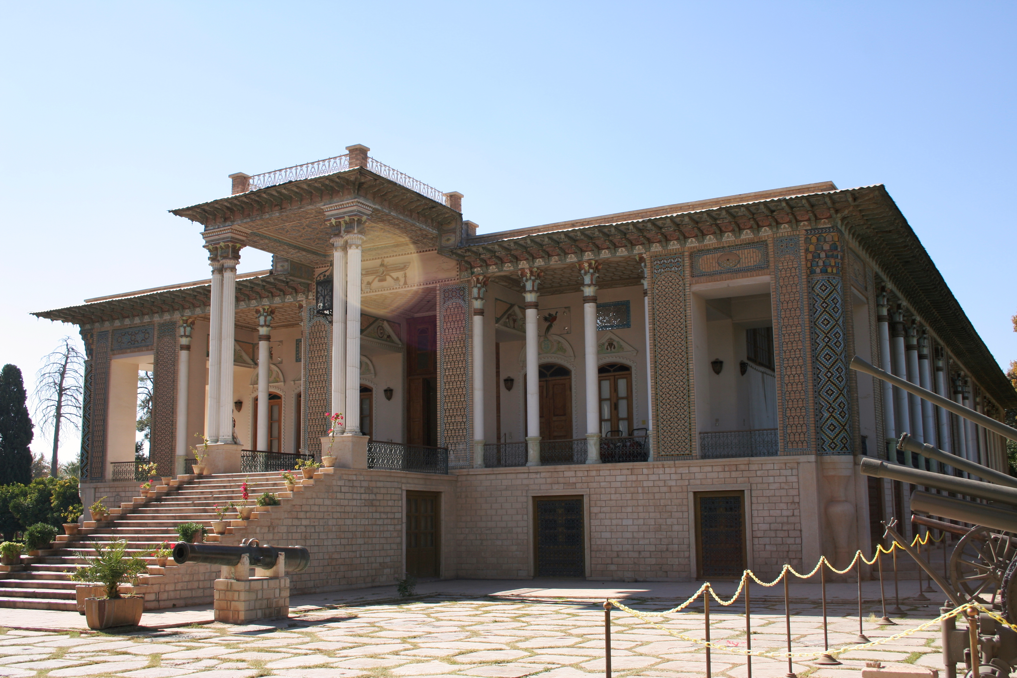 Afif-Abad Garden at summer morning.